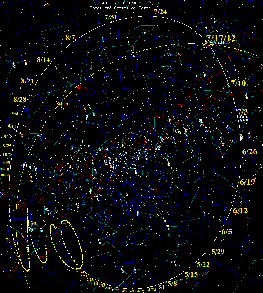 en:96P-Machholz 1 starmap for 2012 perihellion